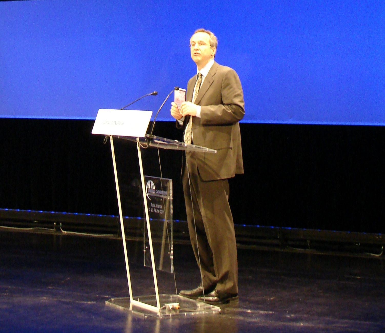 David Finn from Microsoft USA at Global Congress about combating piracy and counterfeilting